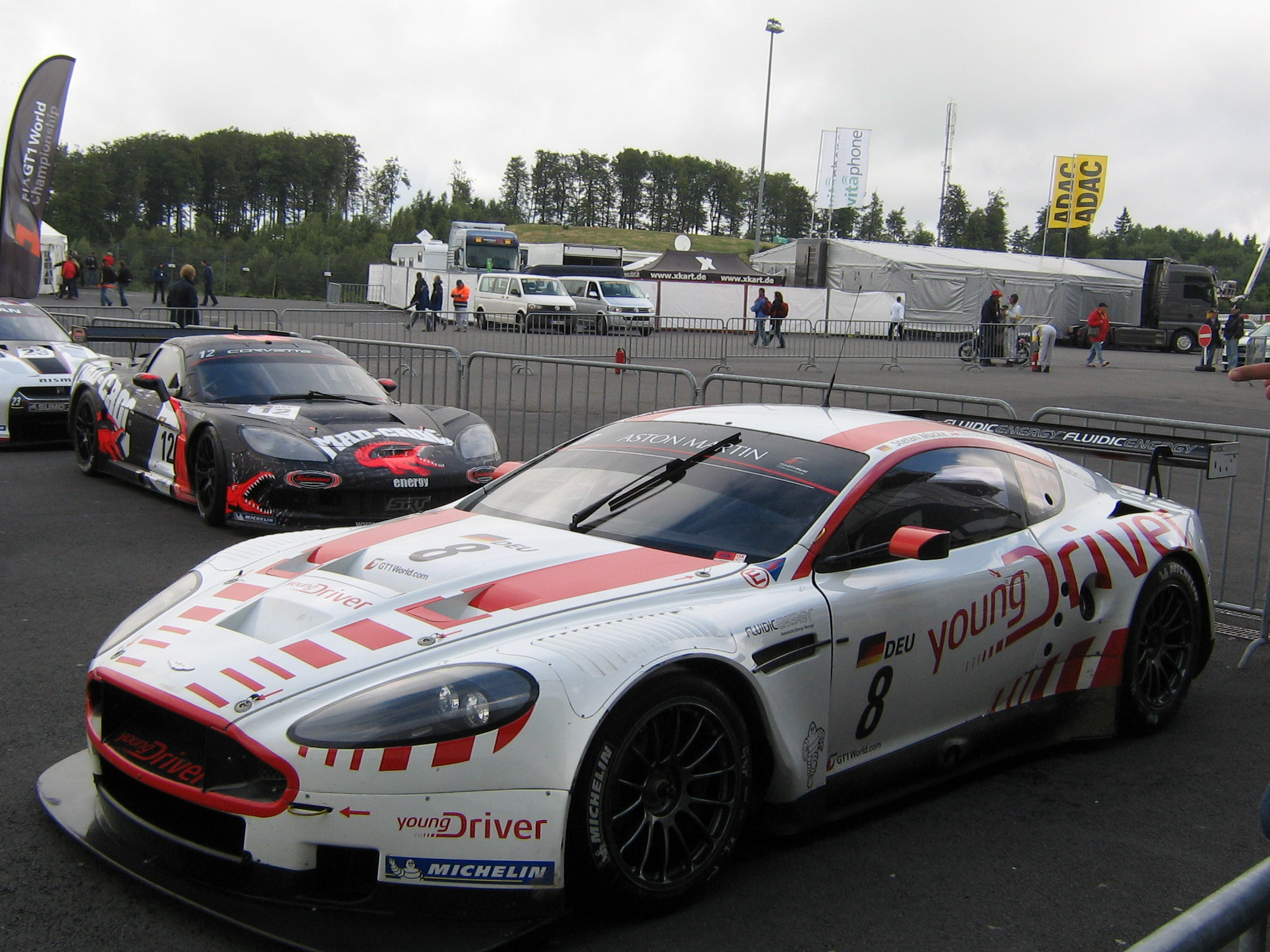 The Aston Martin Nr.8 from the FIA GT 1 World Championship